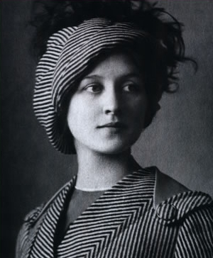 Russian actress Lidia Koreneva